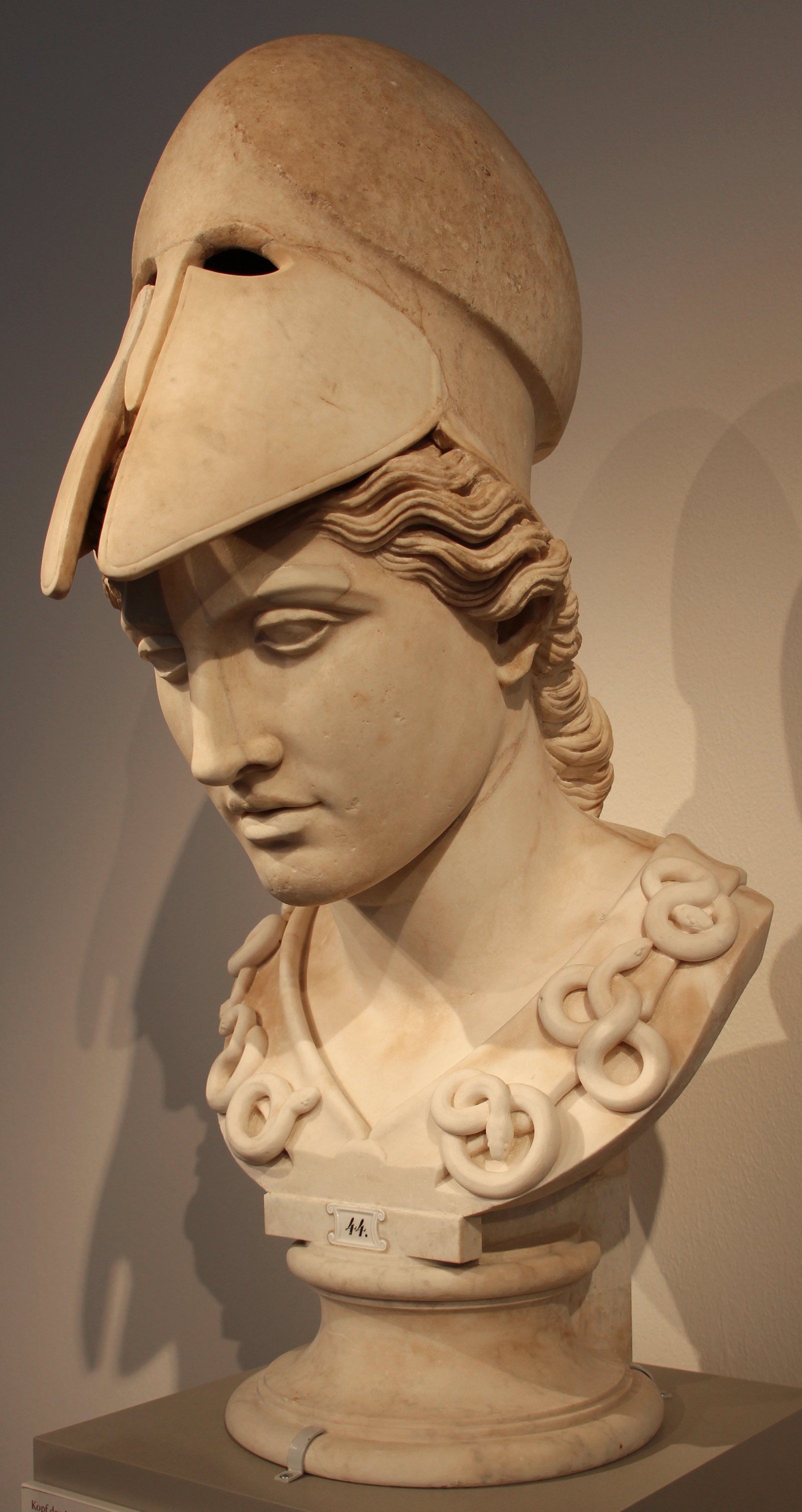 Ancient Greek sculptures in the Antikensammlung Berlin